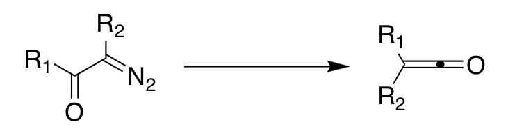 Wolff rearrangement